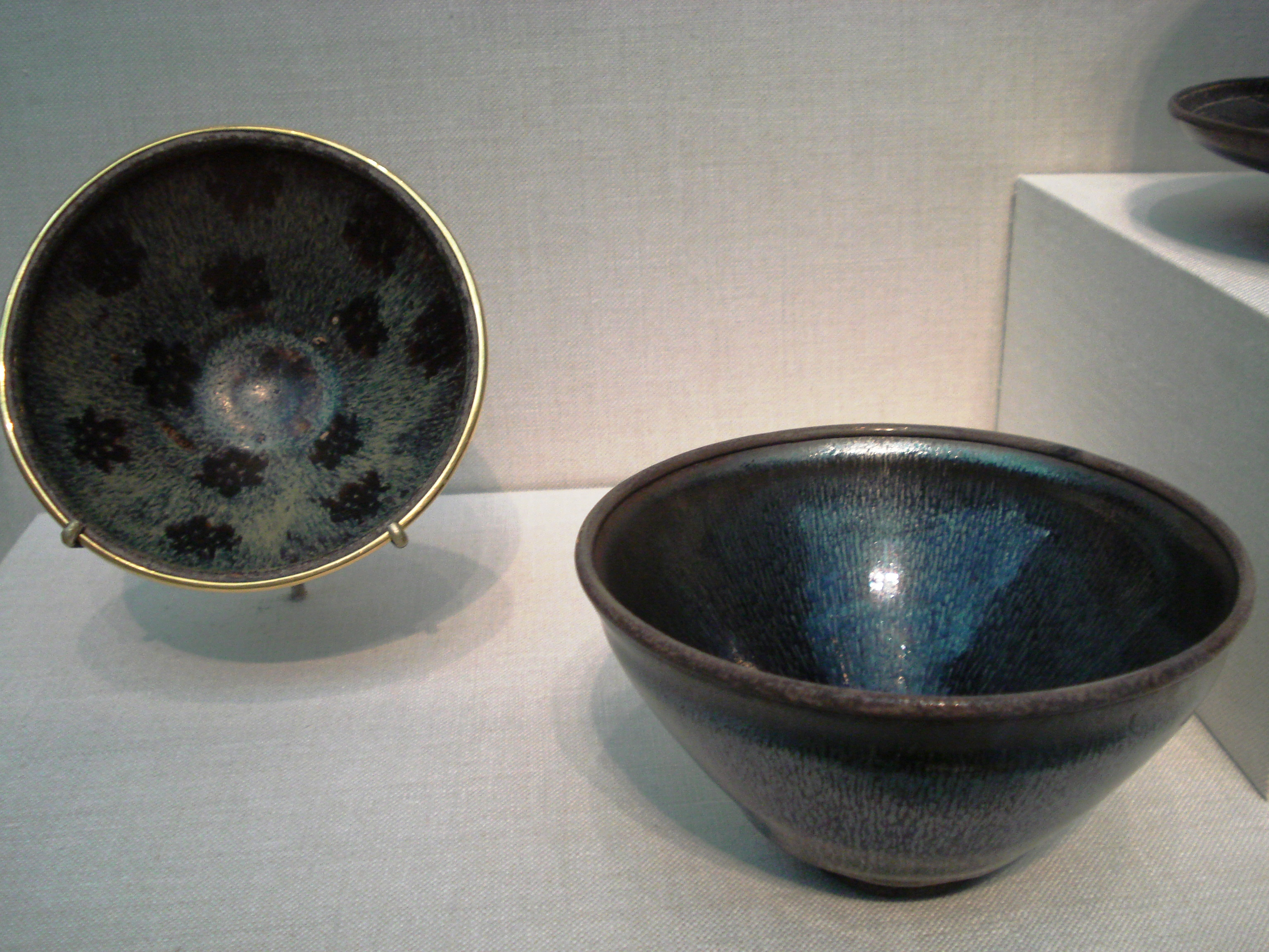 A pair of Chinese stoneware tea bowls from the Song Dynasty (960–1279) AD. On the left is a Jizhou ware (i.e. Jiangxi province) tea bowl with resist designs of blossoms and a metal rim, dated 12th to early 13th century. On the right is a Jian ware (i.e. Fujian province) tea bowl with a "hare's fur" glaze with a metal rim, dated 12th to 13th century.